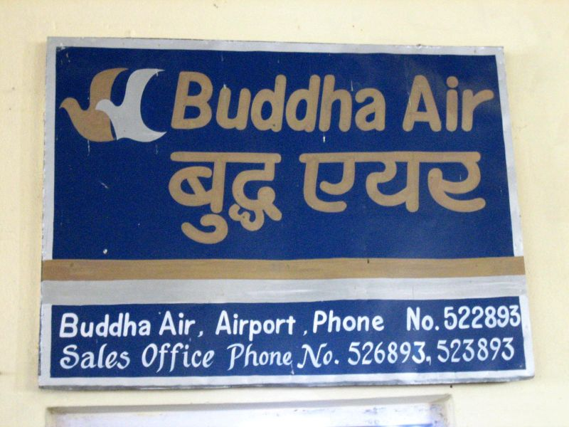 Buddha Air: surely the best karma in the industry!